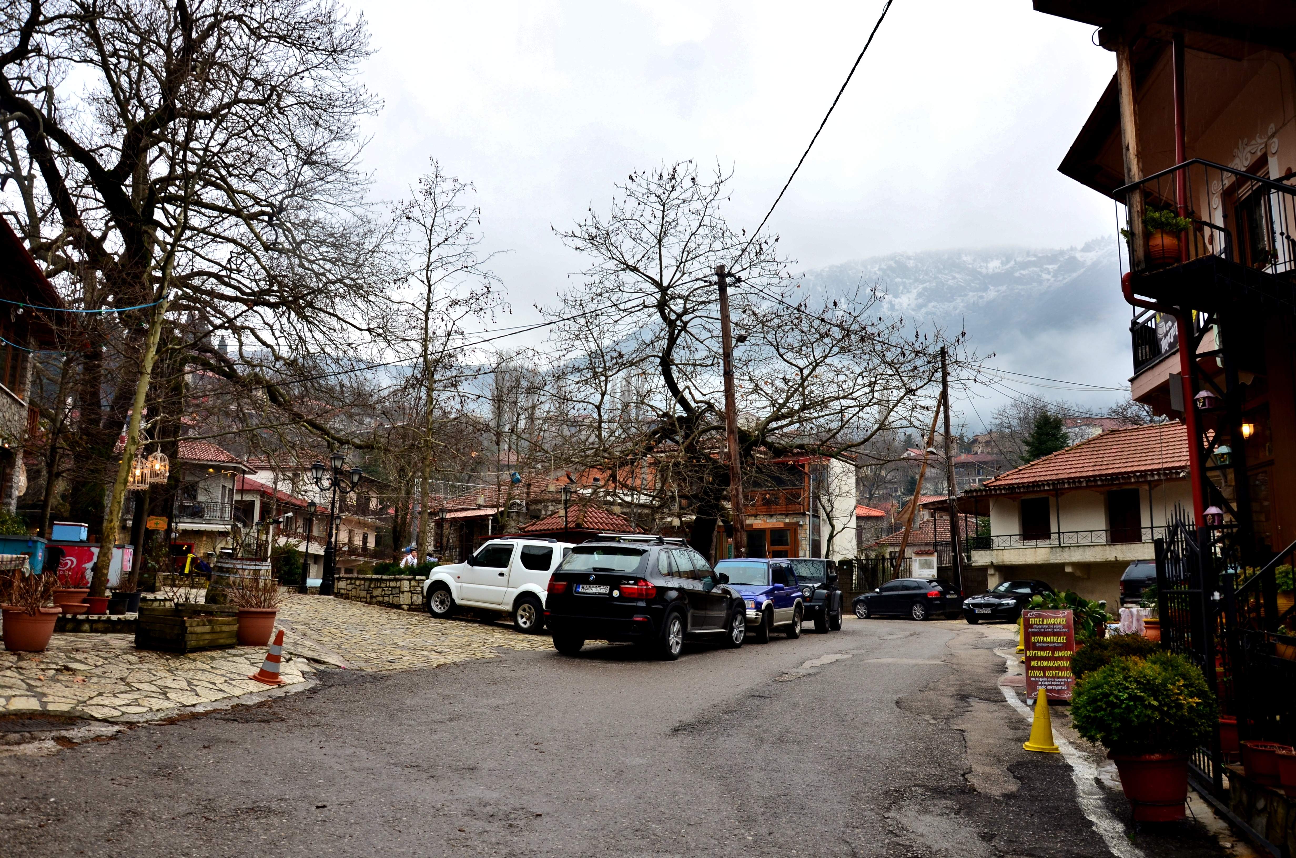 Eptalofos, Phocis, Greece